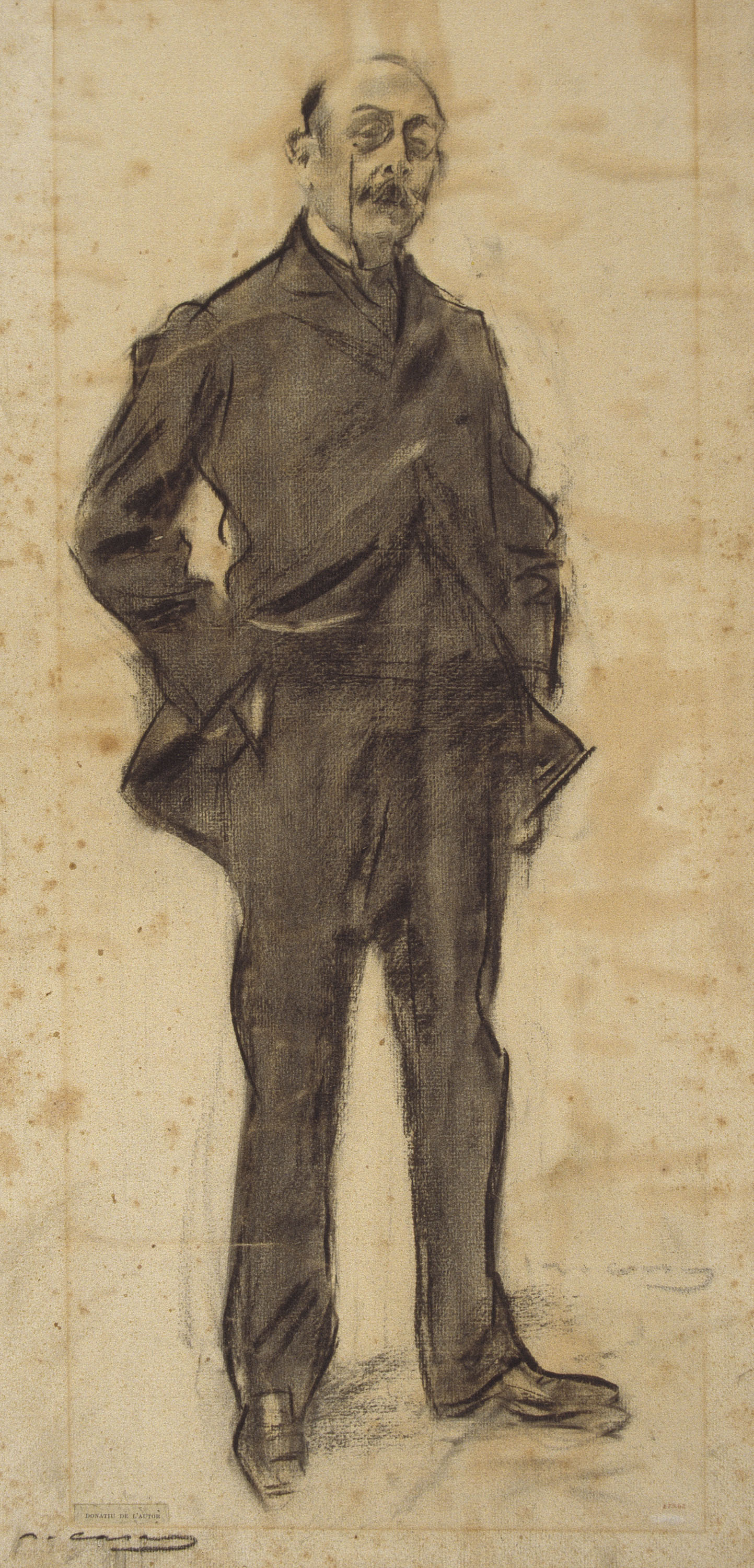 Portrait by Ramon Casas conserved at MNAC in Barcelona.